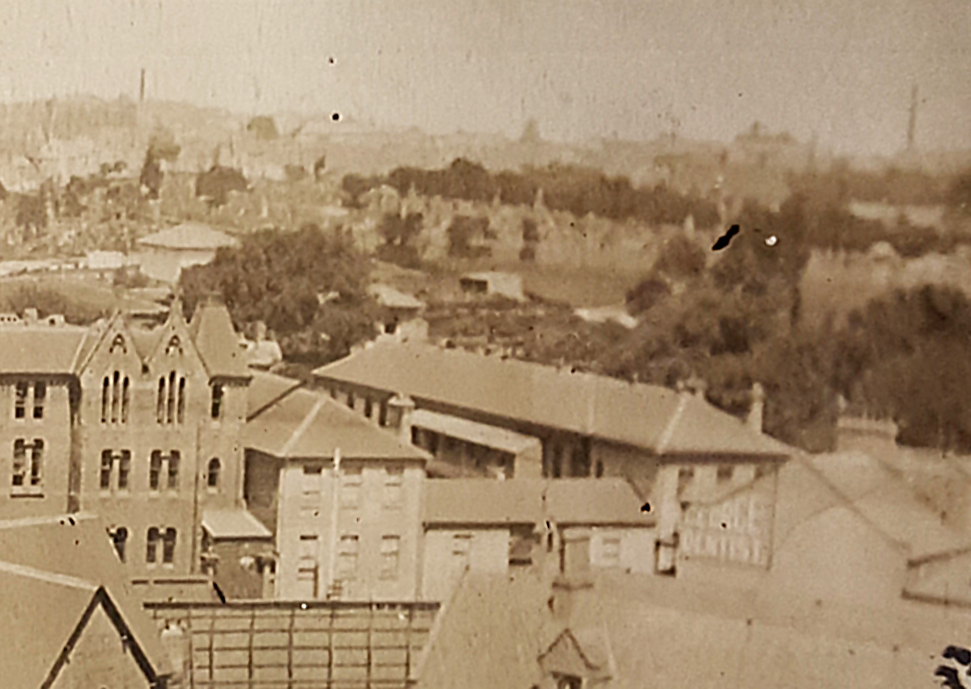 Sydney Female Refuge Society, (detail), Pitt Street, c. 1870, Mitchell Library, Small Pictures File, State Library of New South Wales, PXA 2127/Box 9